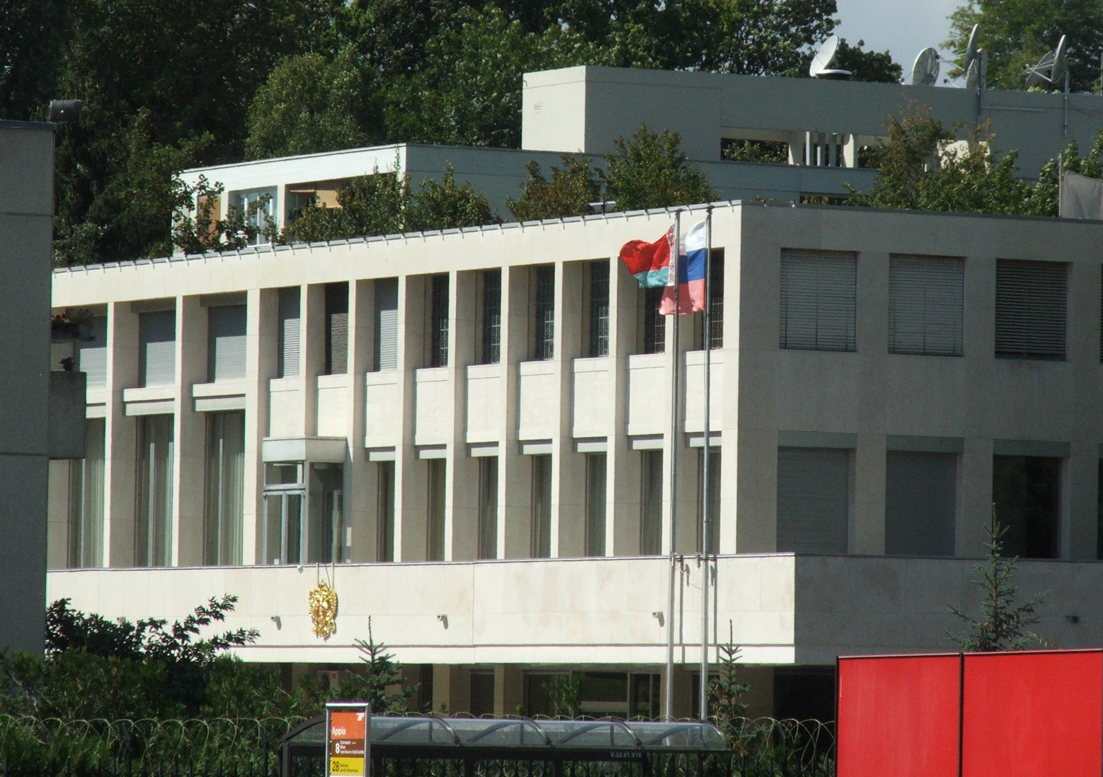 Permanent Mission of Russian Federation to the UN in Geneva, Switzerland. Huge complex of former Soviet mission to the UN hosts as well Mission of Belarus.